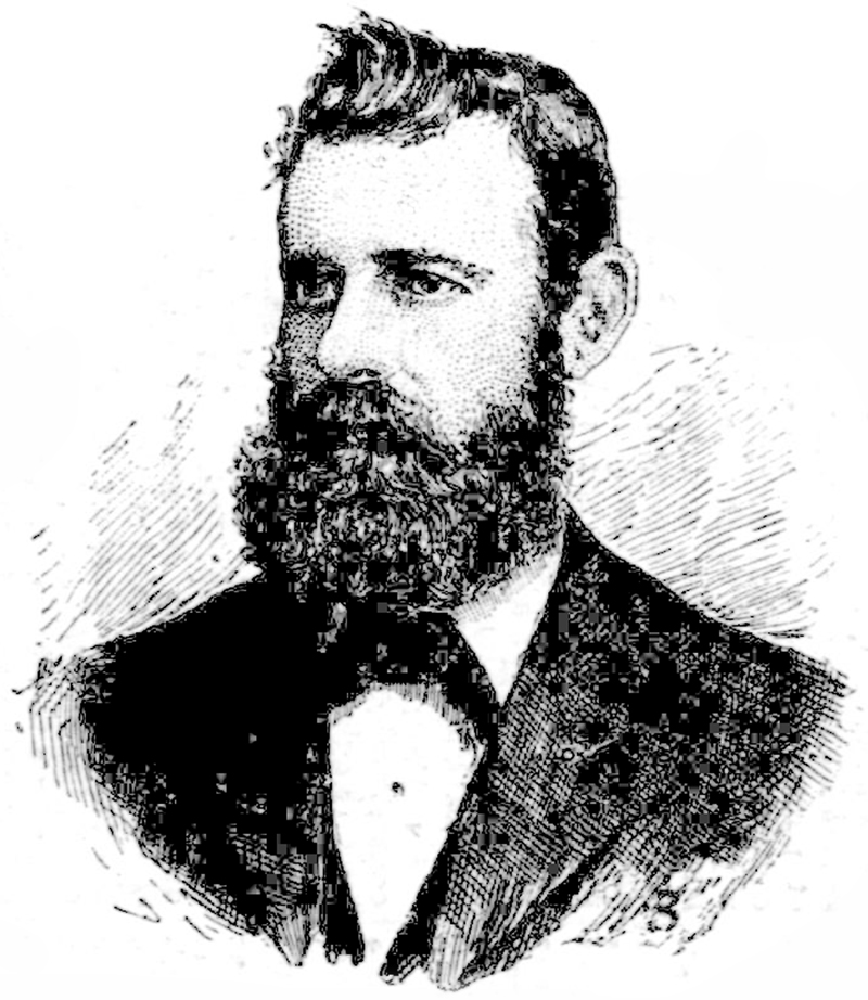 Sketch of the Irish-Australian champion sculler Michael Rush.